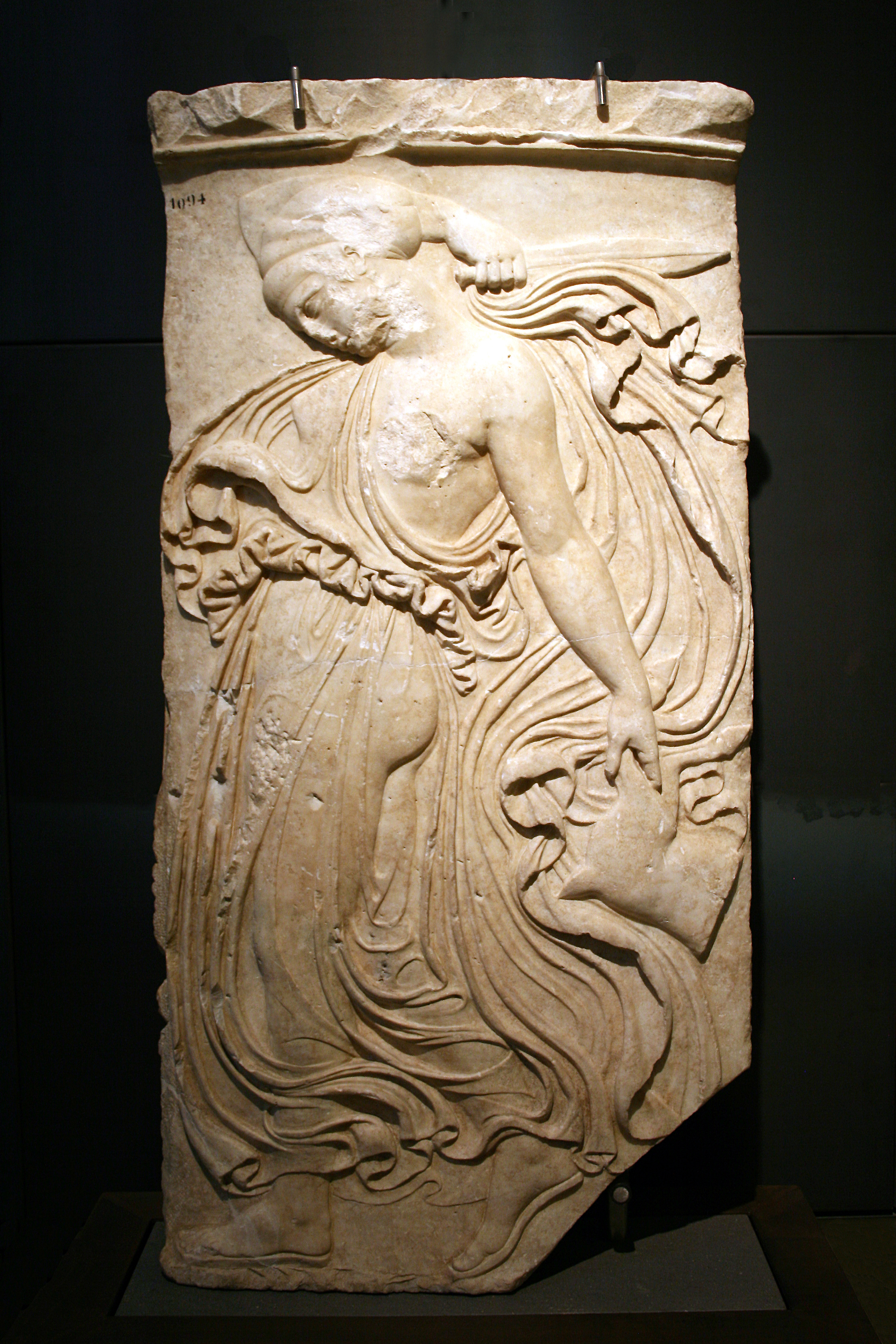 Relief of a dancing maenad. Neo-Attic reelaboration after a Greek Classical original.